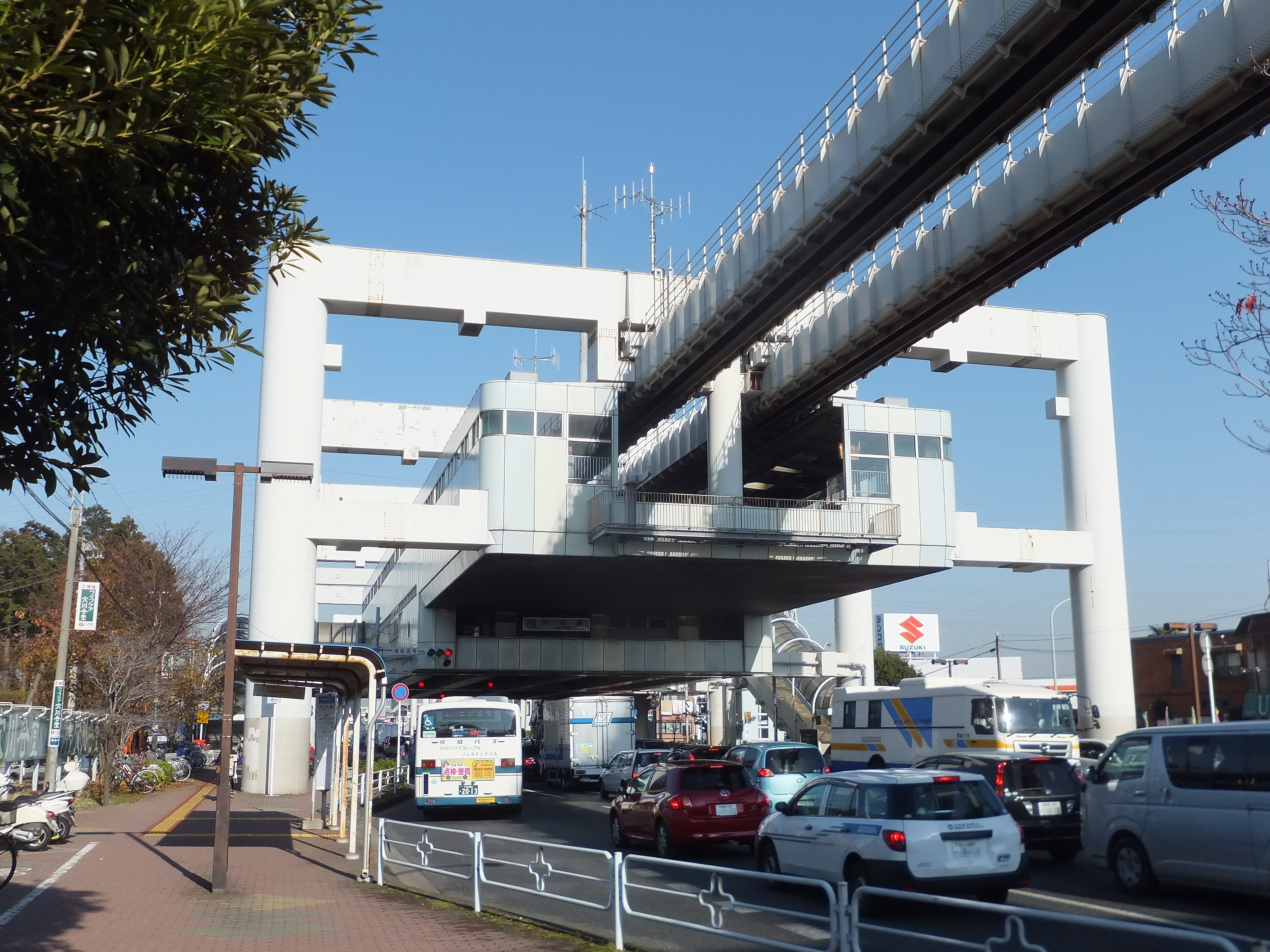 Anagawa Station (Chiba) on Chiba Urban Monorail Line 2 in Inague ward, Chiba city, Japan.